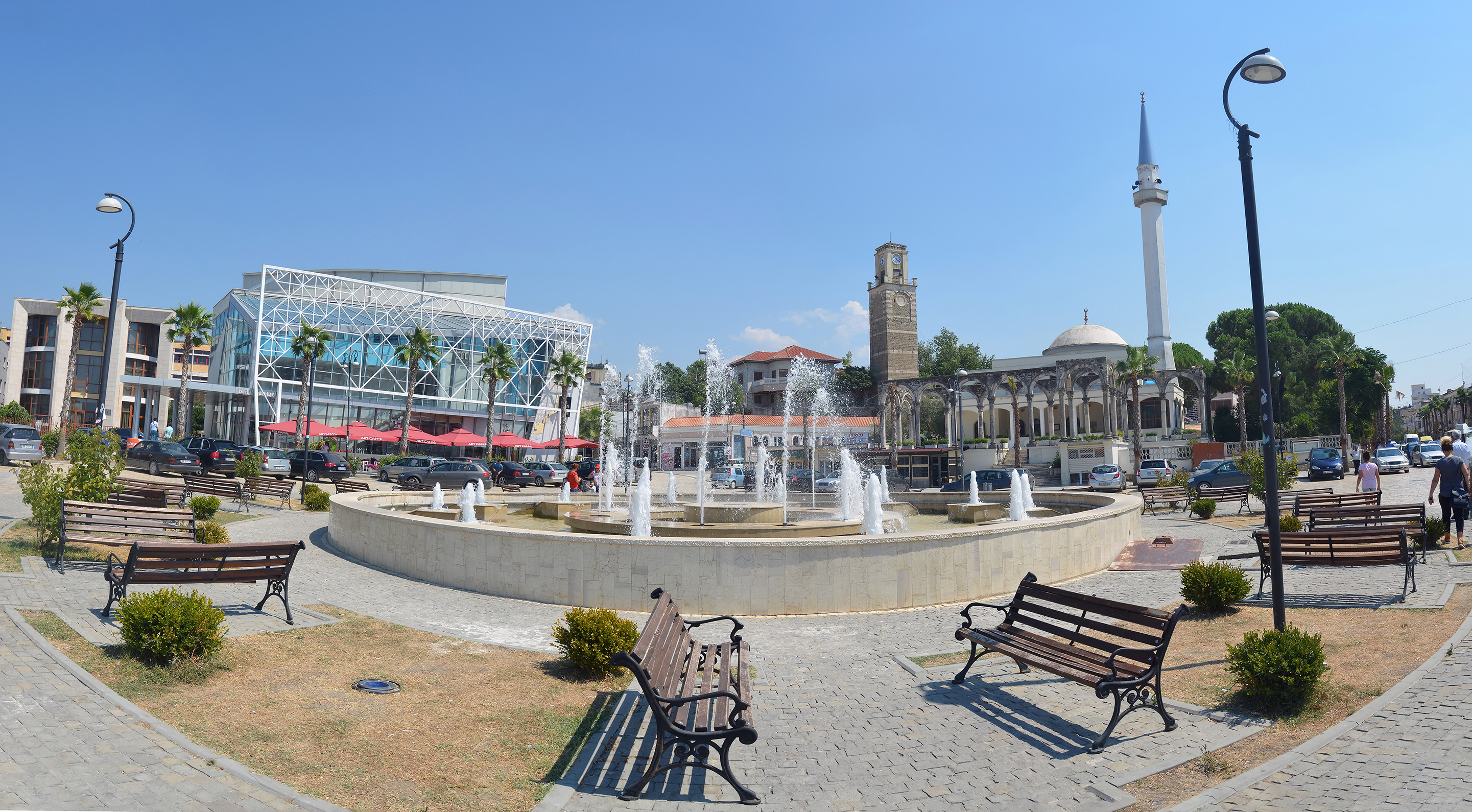 The main square (Sheshi Demokracia) in Kavajë, Albania with the Kubelie Mosque and the Watch Tower in the background